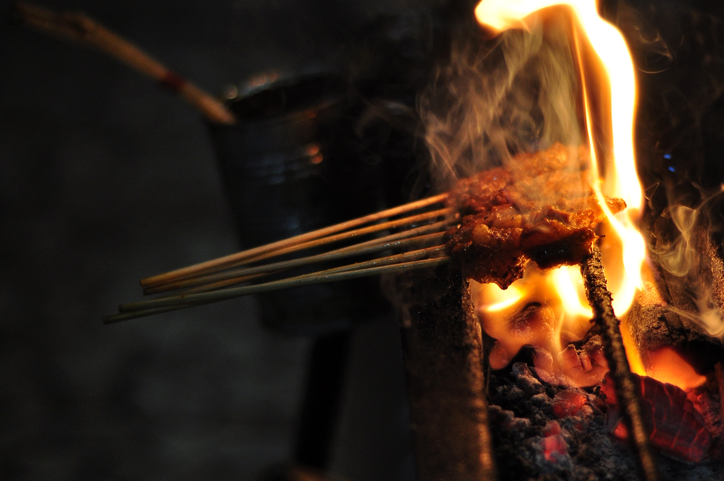 Satay being cooked in a food stall in Tanjung Aru beach, Sabah, Malaysia.